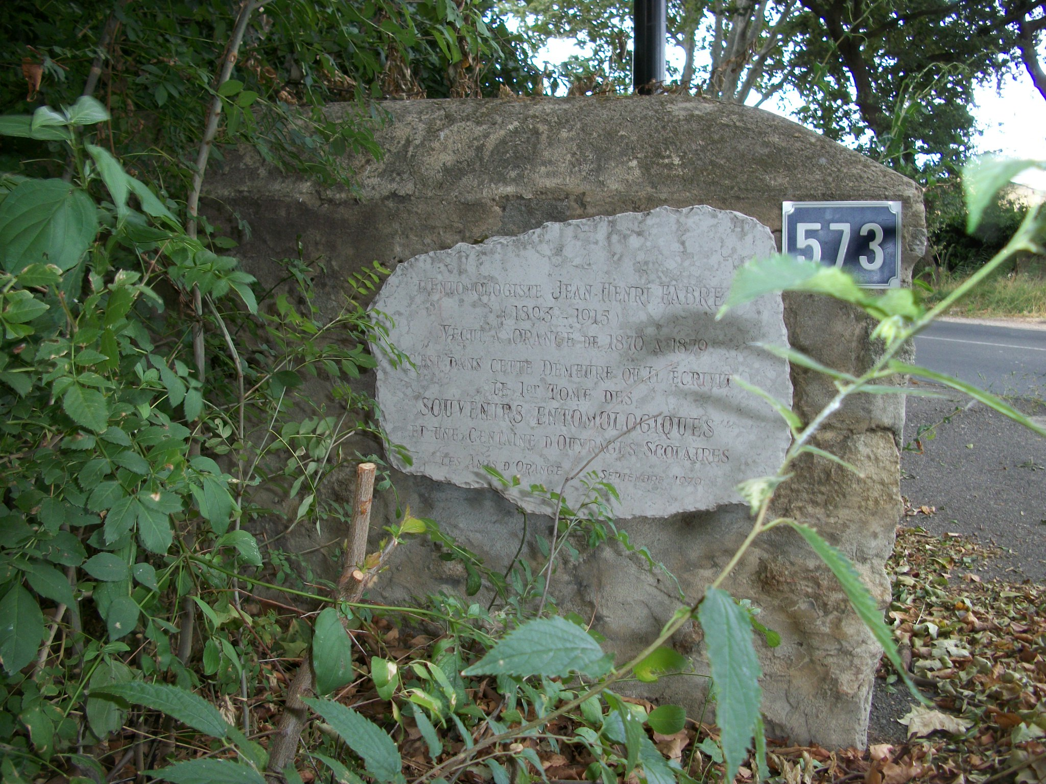 Memorial plaque for the french entomologist Jean-Henri Fabre, in Orange, Vaucluse, France.